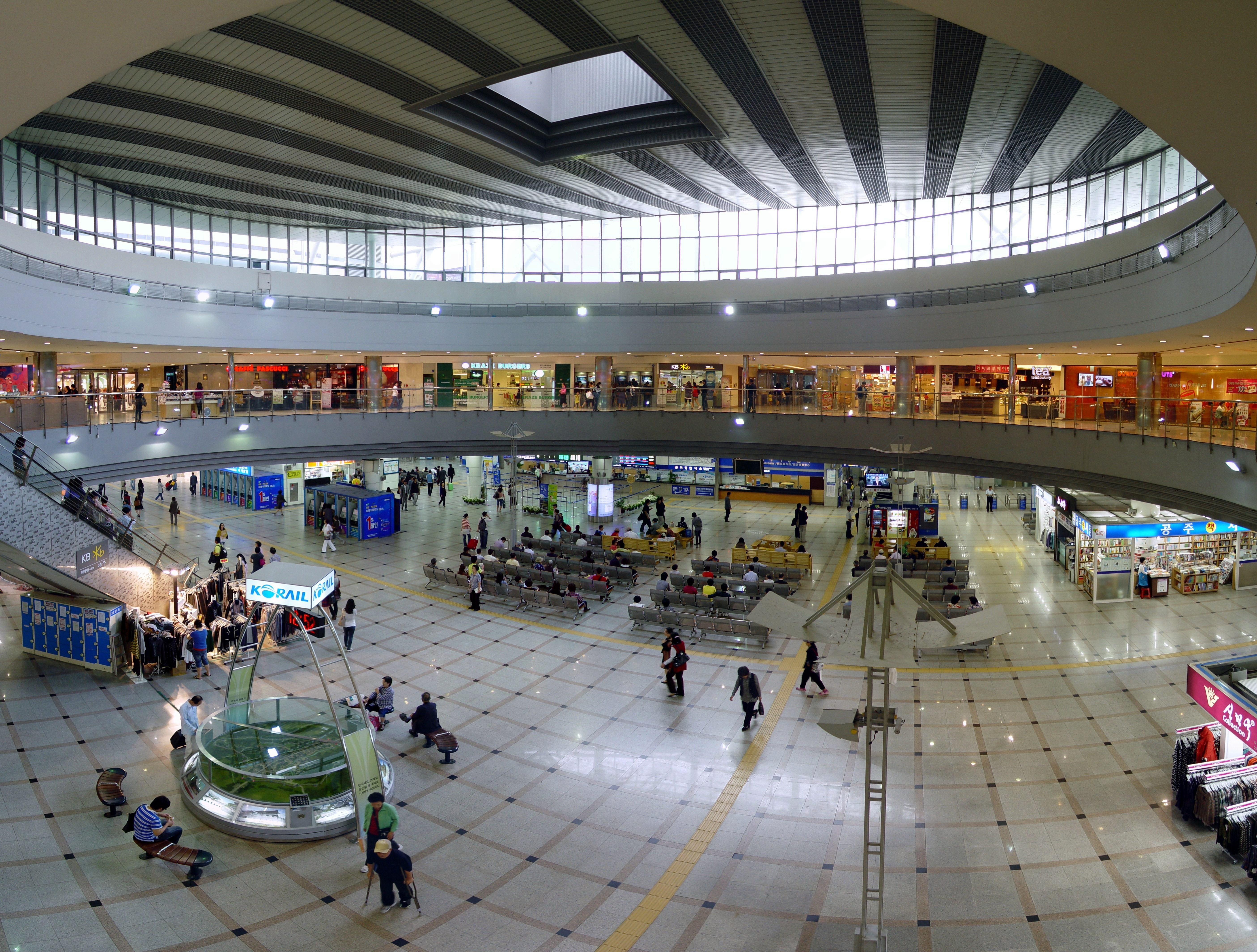 Panorama inside Suwon Station from the 3rd floor